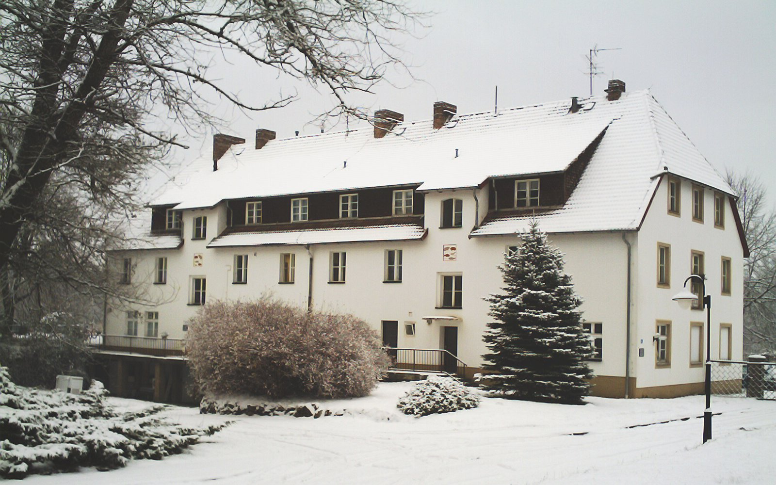 Campus of the Biomedical Research Complex in Karlsburg near Greifswald, Germany; House A: Institute of Diabetes "Gerhardt Katsch" e.V.; Image created by uploader